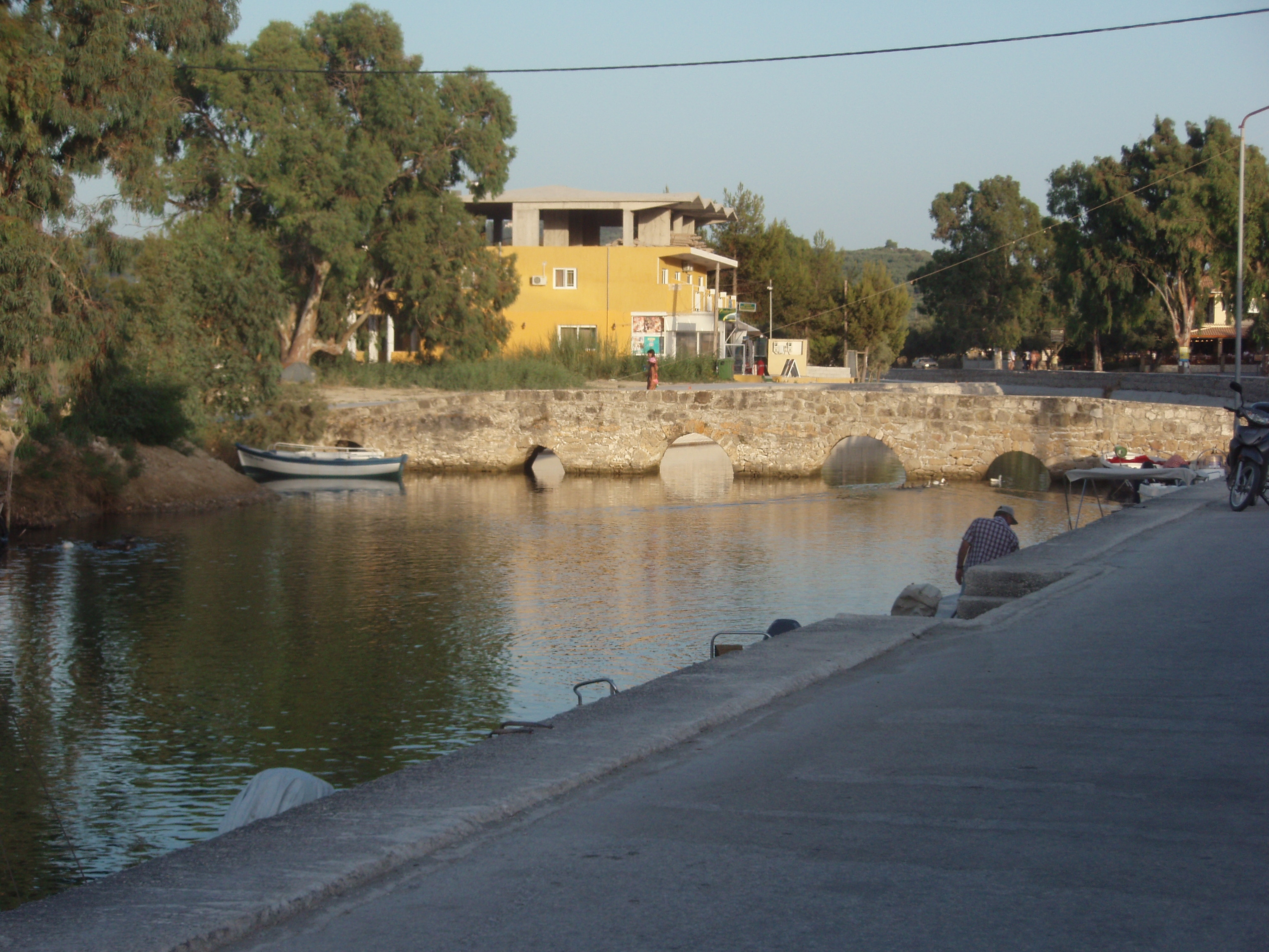 Venetian bridge over Alykes river, Alykes, Zakynthos, Greece. The bridge was built under Venetian domination times in Zakynthos (approx. 17th to 18th century).